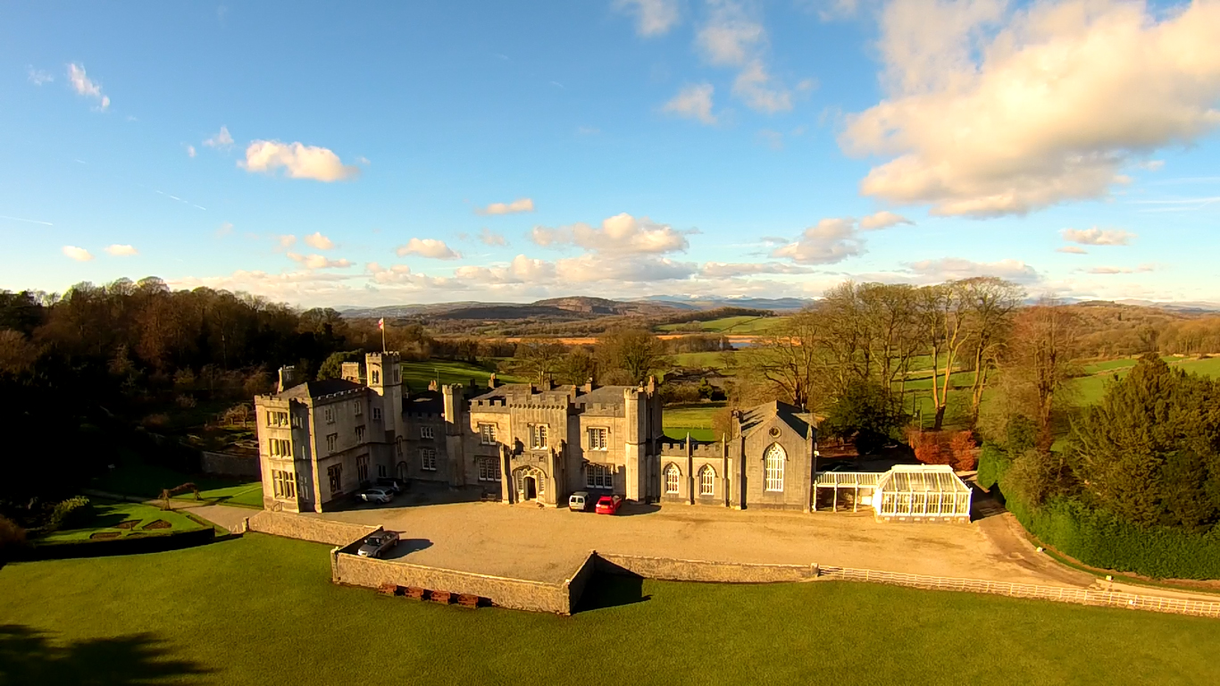 The front elevation of Leighton Hall, with the distant fells of The Lake District visible on the horizon behind.